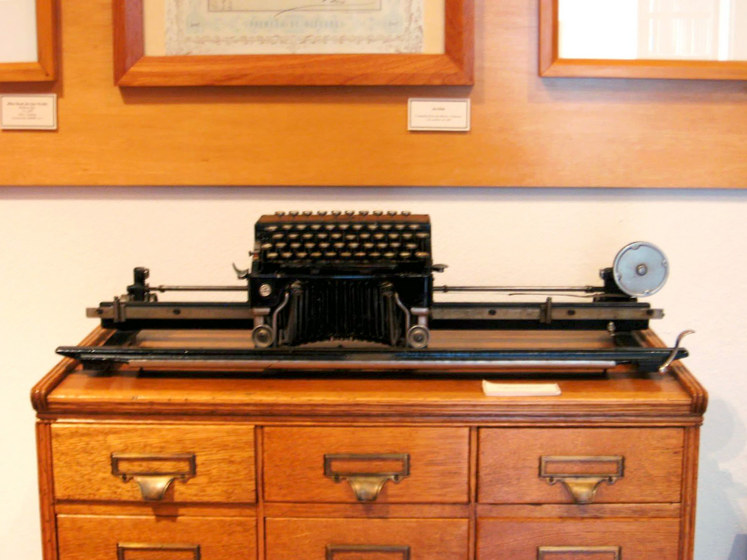 An old book typewriter on display at the Historic Archive and Museum of Mining in Pachuca Mexico